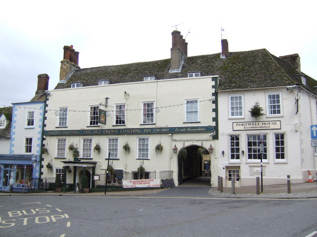 The Old Crown Coaching Inn, 25 Market Place, Faringdon, Oxfordshire (formerly Berkshire)